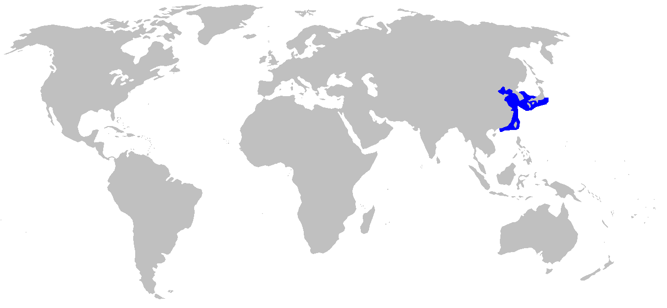 Distribution map for Hemitriakis japanica